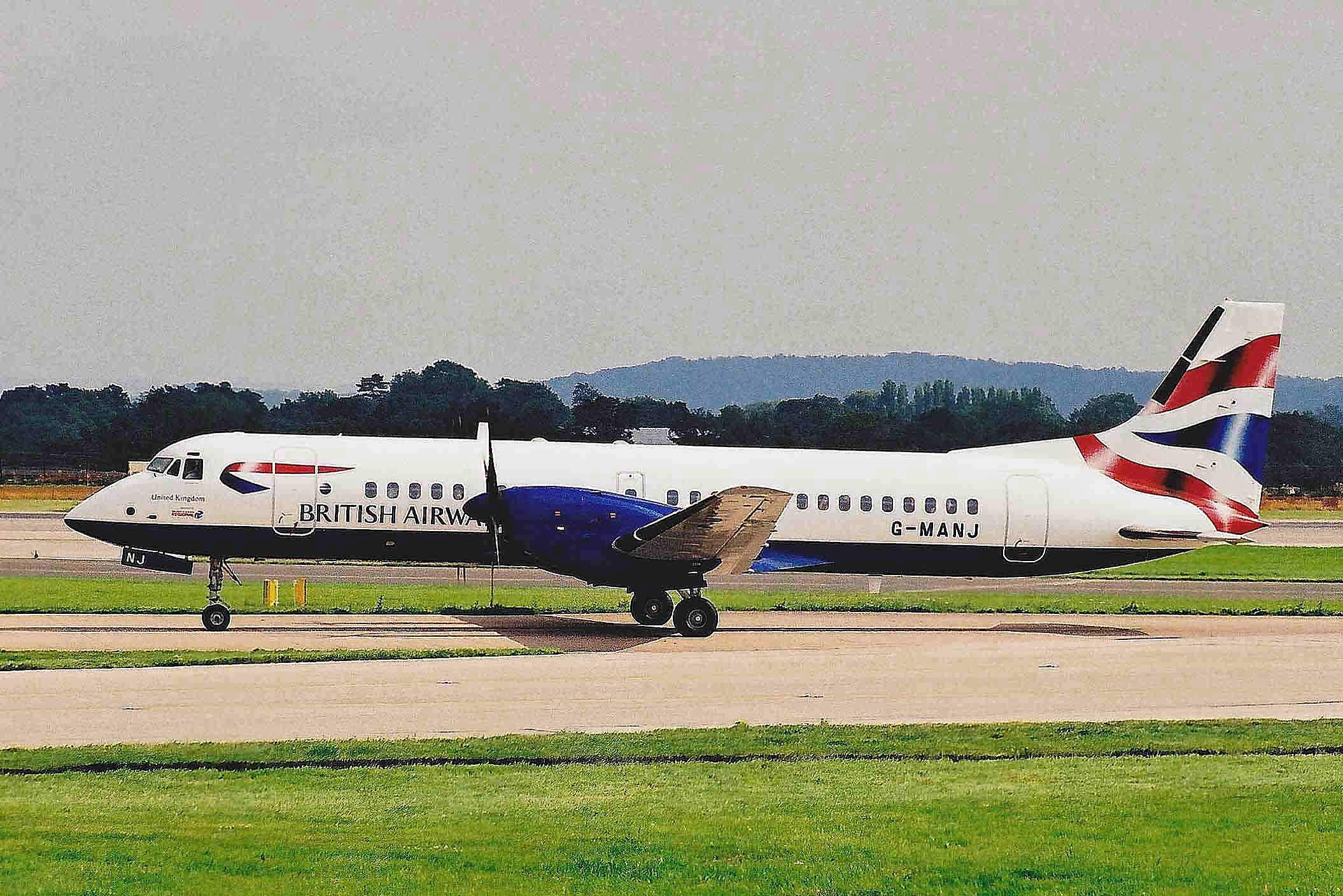 Classic ATP pose, with the tail well down and the nose oleo extended. Full load again!